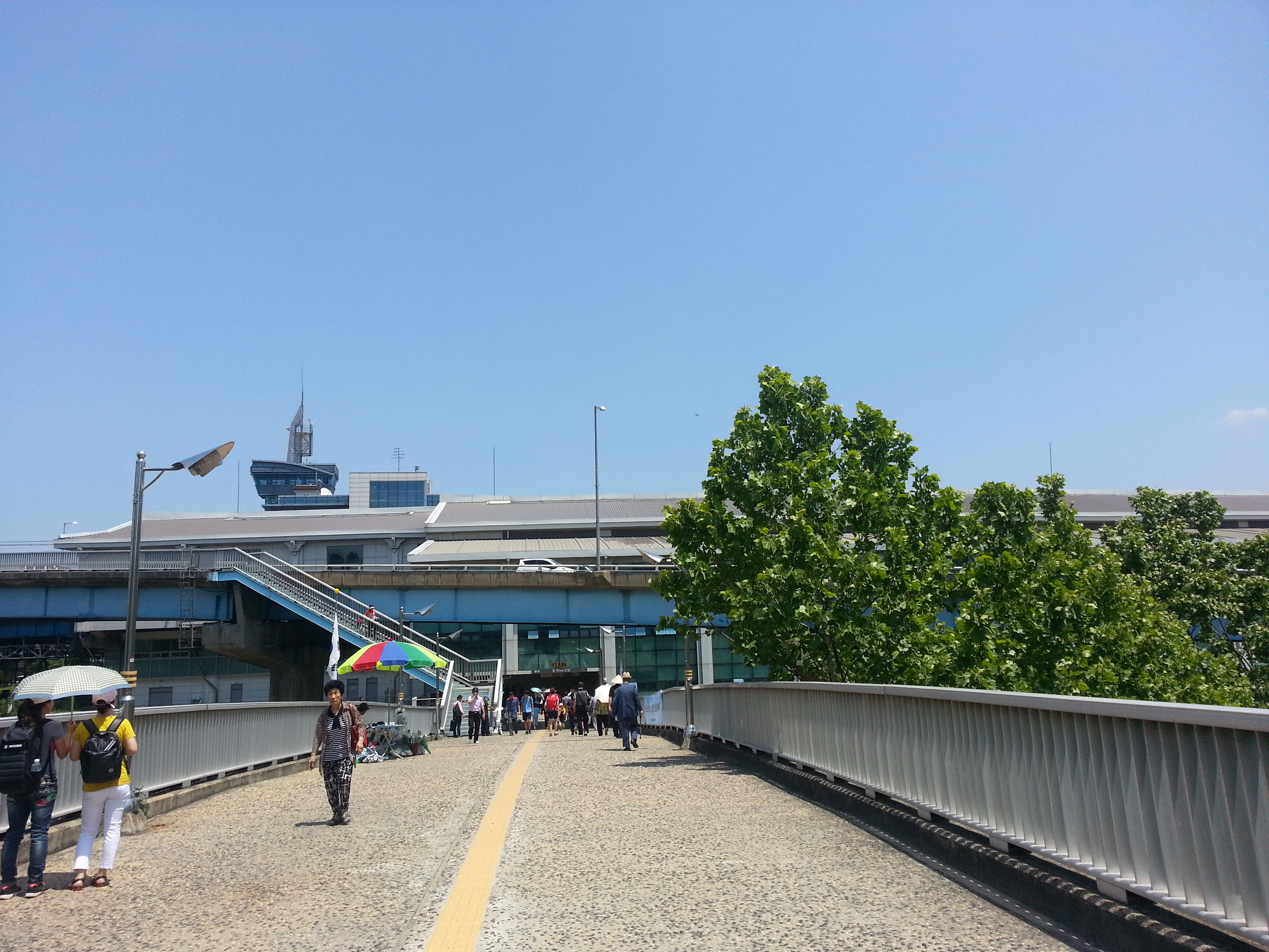 Seoul Metro Subway Line 4 - Dongjak Station, Exit 2